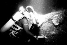 Aquanaut Bob Sheats diving at the 300-foot level of Scripps Canyon during the United States Navy's SEALAB II project in 1965. Official U.S. Navy photograph in public domain.